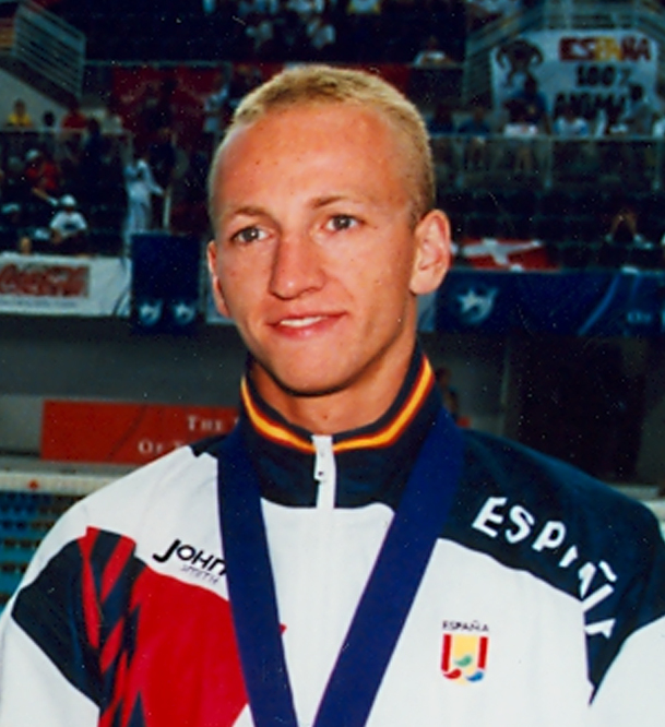 José Luis Arribas Granados